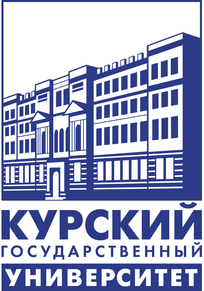 The current logo for Kursk State University